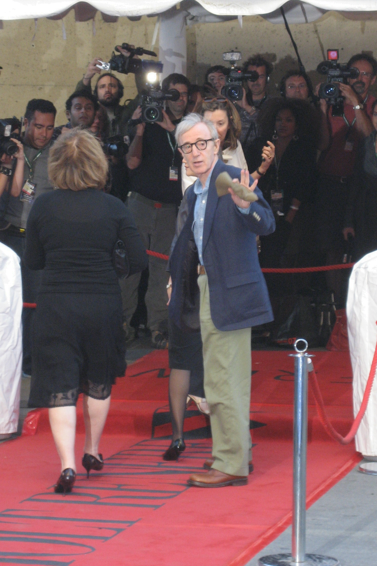 Woody Allen and wife Soon Yi Previn at the premiere of Cassandra's Dream, Toronto Film Festival 2007